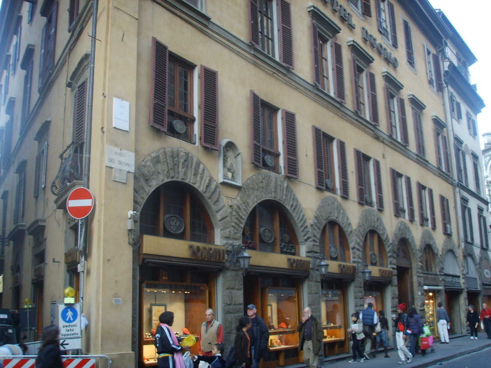 Torrini head quarter (museum and jewellery shop) in florence italy